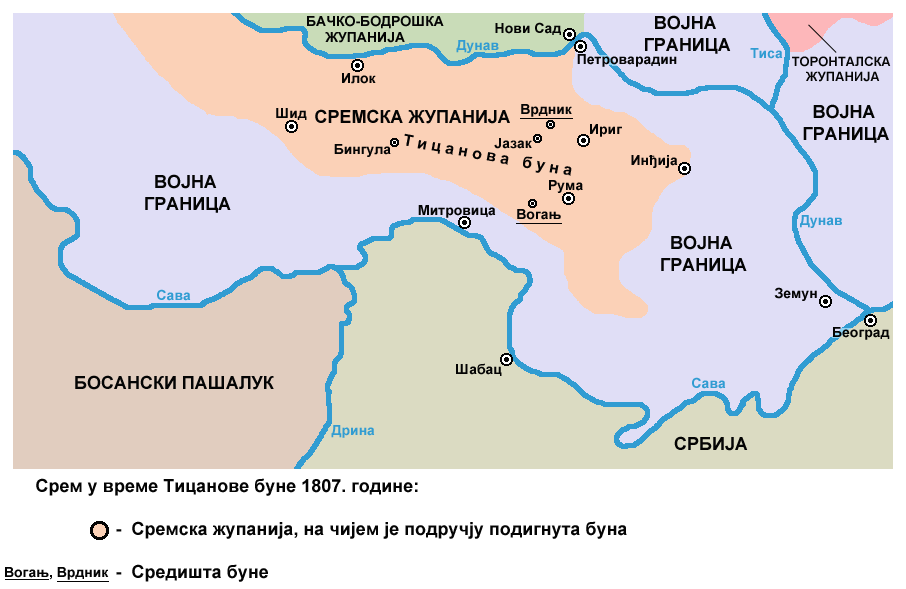 Syrmia during the Rebellion of Tican in 1807.